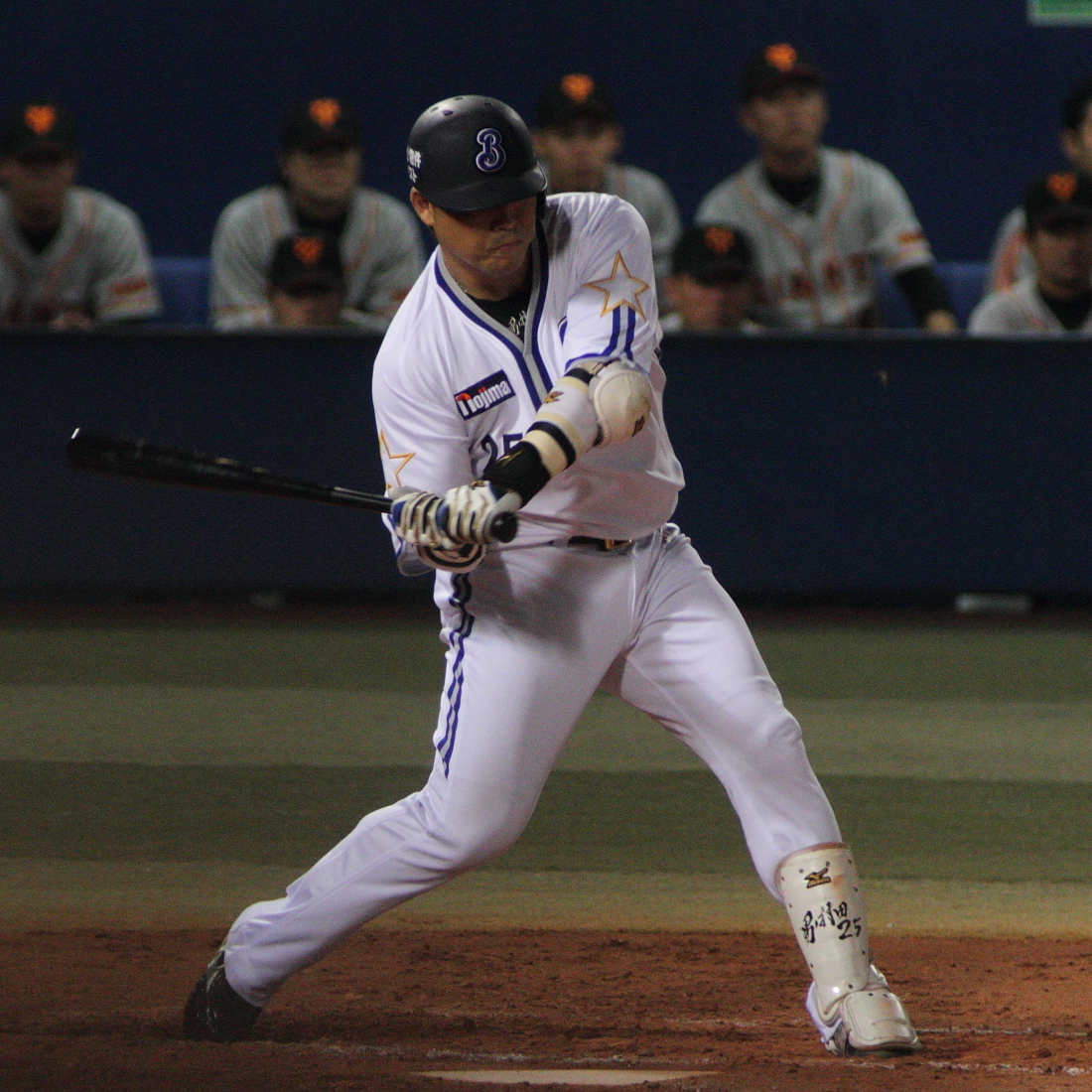 Shuichi Murata, infielder of the Yokohama BayStars, at Yokohama Stadium.